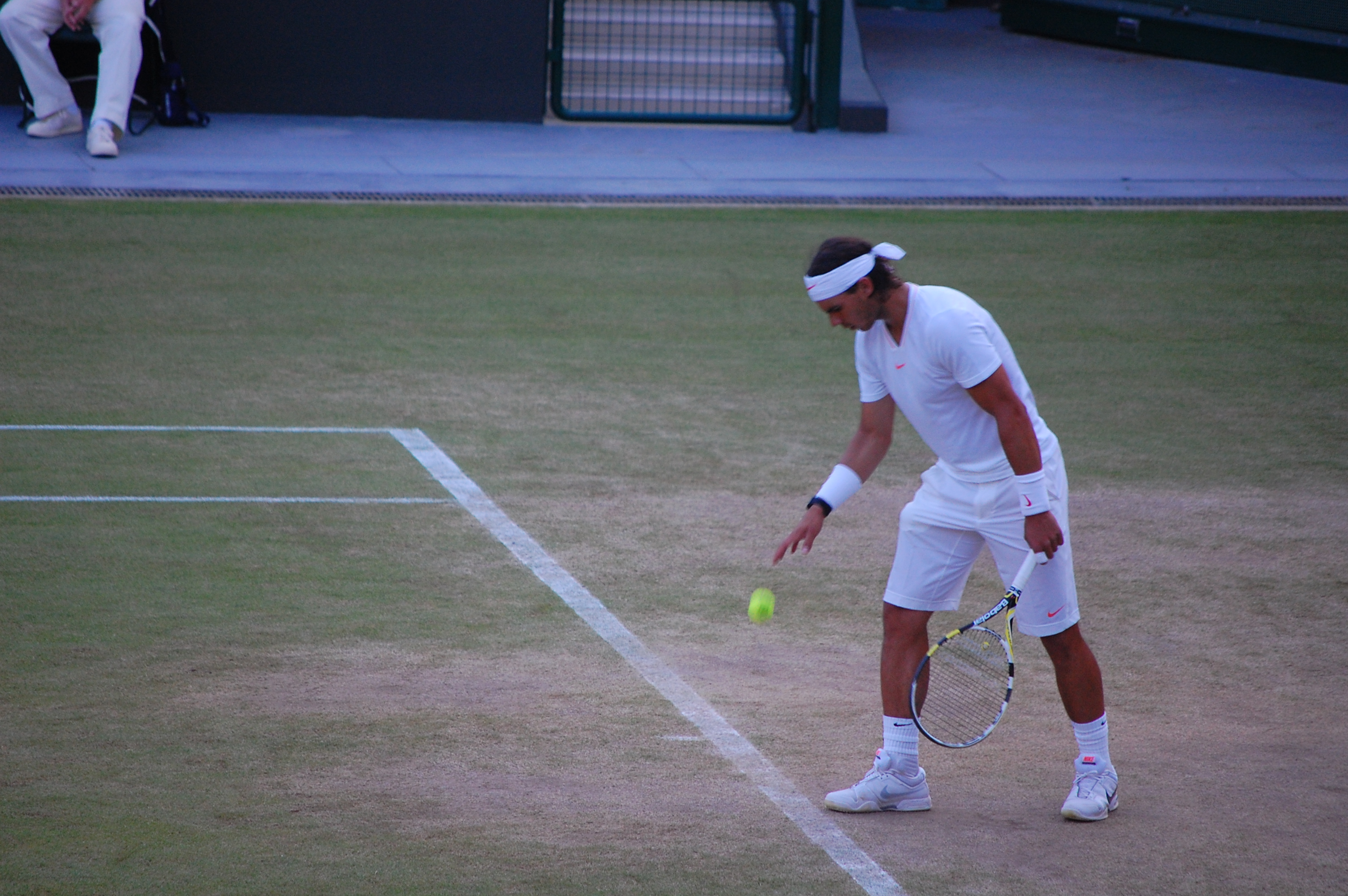 Tennis in Wimbledon 2010